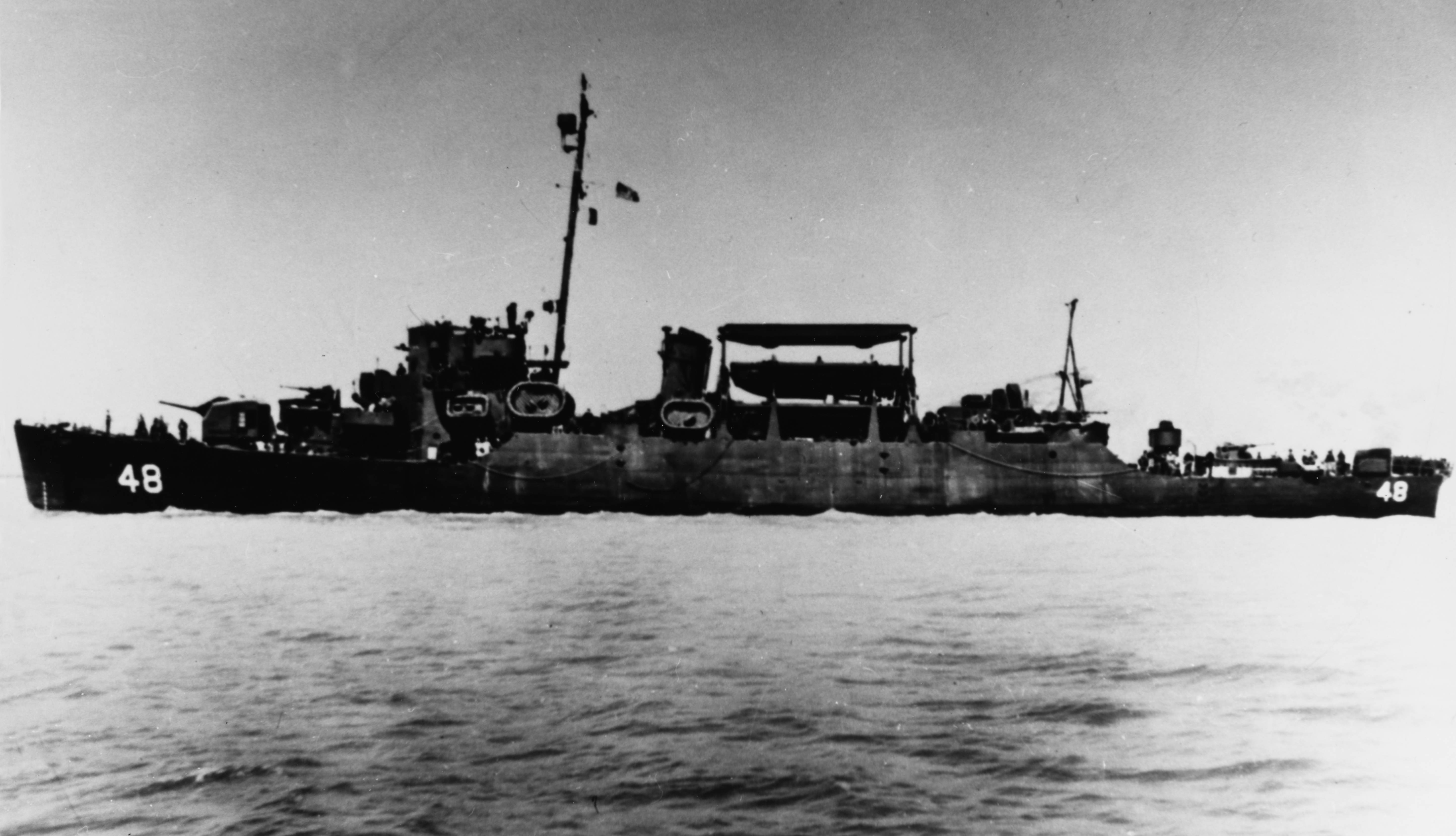 The U.S. Navy high-speed transport USS Blessman (APD-48) underway, circa in 1945.